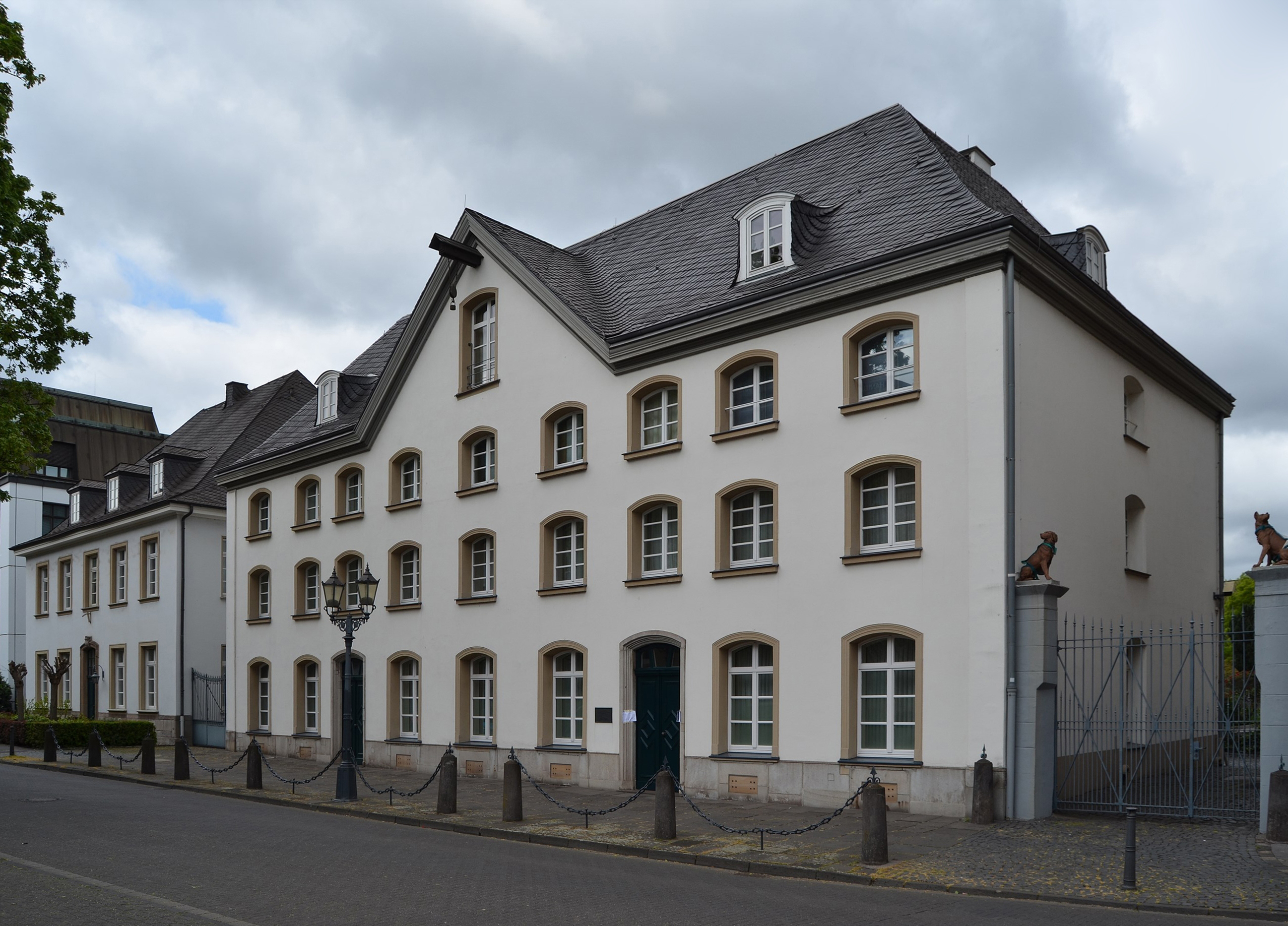 Duisburg (North Rhine-Westphalia, Germany) – borough Homberg/Ruhrort/Baerl, district Ruhrort – Haniel headquarters – historic former packing house This image shows a heritage building in Germany, located in the North Rhine-Westphalian city Duisburg (no. 175). This photograph was taken with a Nikon D7000